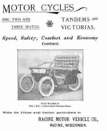 1895 advertisement for the Kane-Pennington Victoria. The engine by E.J. Pennington was a faulty, ill-constructed affair.